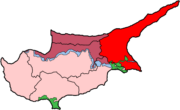 Map of Cyprus showing Famagusta district. The green areas are the UK Sovereign Base Areas, the blue area is the UN buffer zone. Areas north of the buffer zone are controlled by the Turkish Republic of Northern Cyprus, areas south are controlled by the Greek Cypriot government.